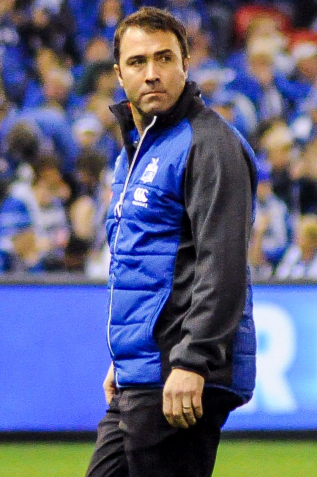 Brad Scott during the AFL round thirteen match between North Melbourne and St Kilda on 16 June 2017 at Etihad Stadium in Melbourne, Victoria.